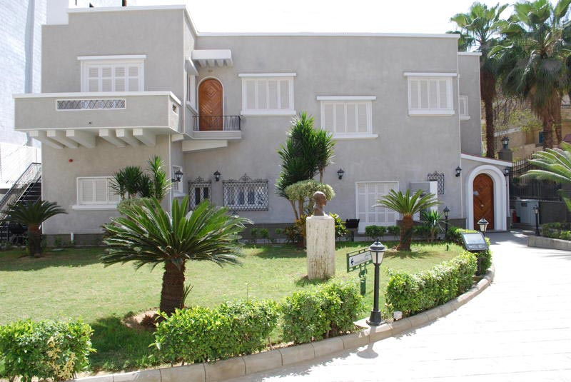 To be Used in the main article for Taha Hussein Museum